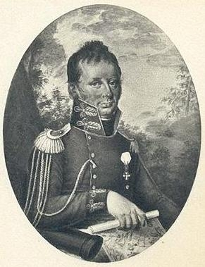 Frantz Christopher Bülow (1769-1844), Danish general and courtier